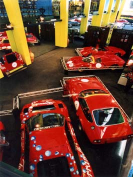 Ferrari Museum Maranello Rosso Rep. San Marino